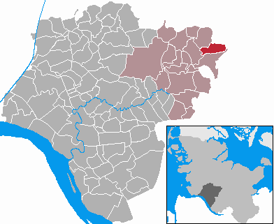 This map shows the area of the municipality Willenscharen in the Kreis (district) Steinburg, Schleswig-Holstein, Germany.